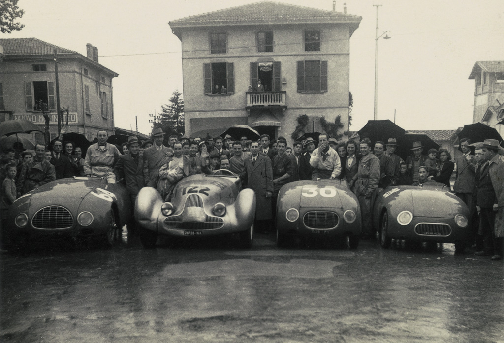 Stanguellini people and cars at the Parma-Poggio di Berceto race, 21 May 1939. Franco Bertani (Fiat/Stanguellini 1100, won the SN1.1 class), Luigi Filippone (Fiat/Stanguellini 2800), Giulio Baravelli (500, won the SN750 class). One source: [1][2]